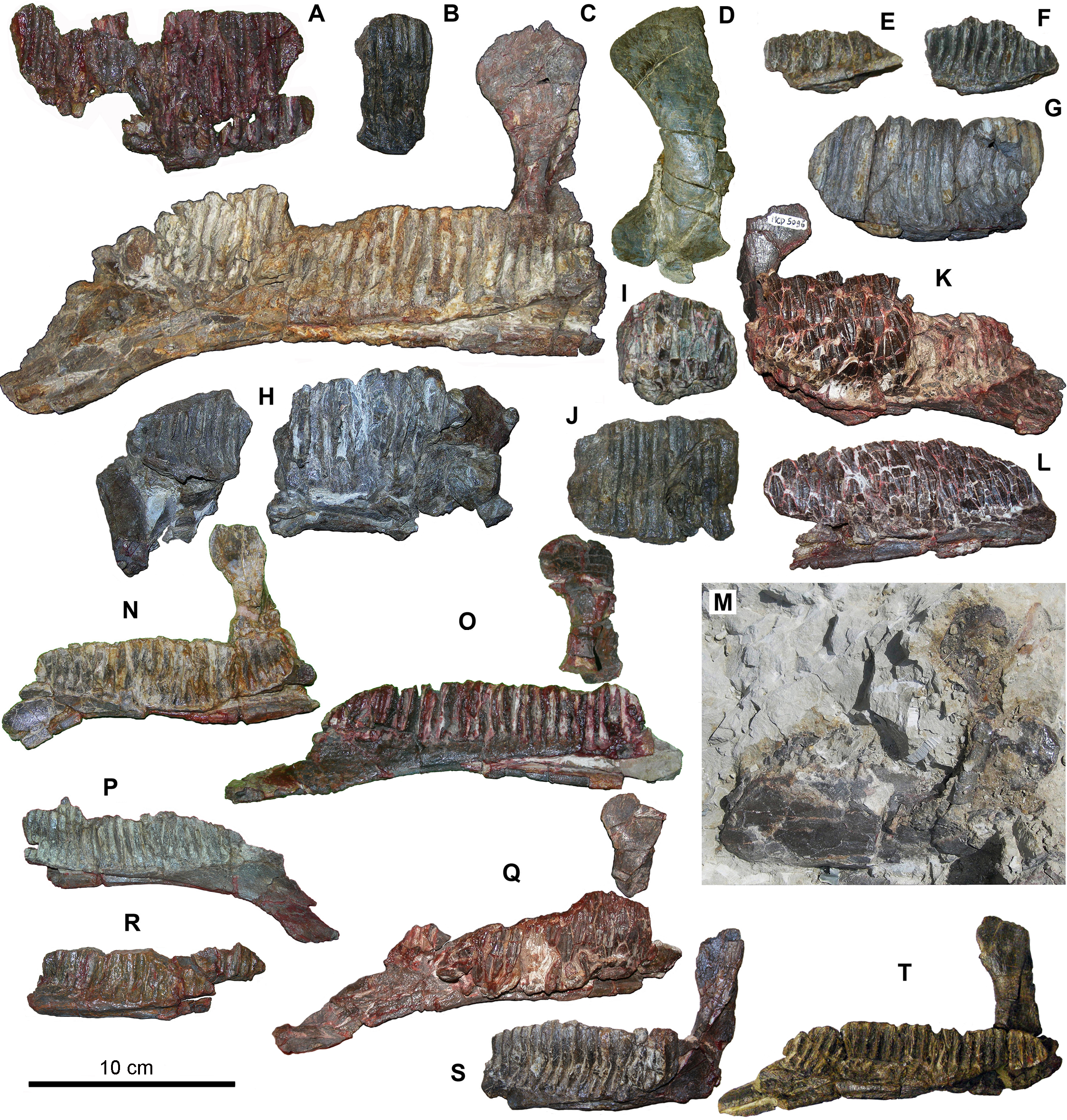 (A) MCD-4779. (B) MCD-4944. (C) MCD-5007. (D) MCD-5097. (E) MCD-4942a. (F) MCD-4942b. (G) MCD-5098. (H) MCD-5108. (I) MCD-4726a. (K) MCD-5096. (J) MCD-4836. (L) MCD-5012. (M) MCD-5012 in the field with the impression of the coronoid process (labial side). (N) MCD-4945. (O) MCD-5008. (P) MCD-4963. (Q) MCD-4743. (R) MCD-4833. (S) MCD-4946. (T) MCD-4744. Scale bar equals 10 cm.